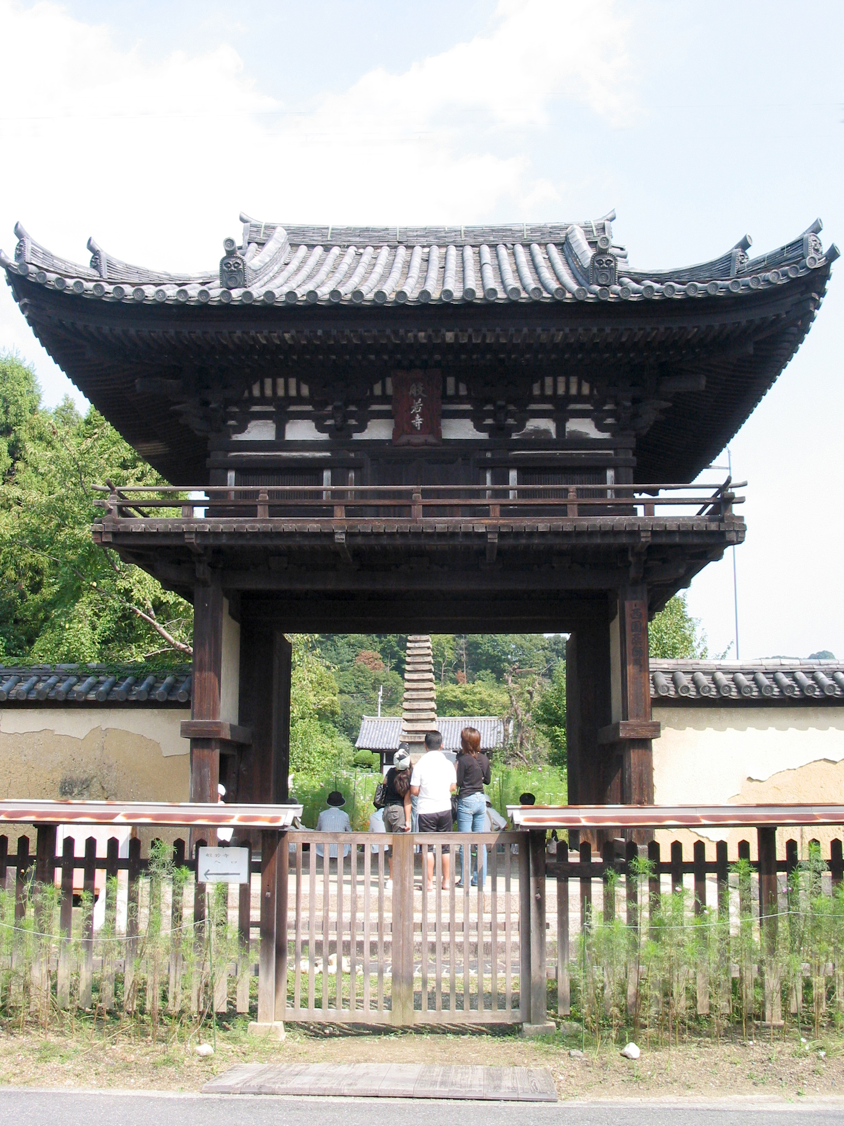 Rōmon of Hannya-ji (National Treasure of Japan, built in Kamakura period) Hannyaji Nara-City Nara Pref., Japan.